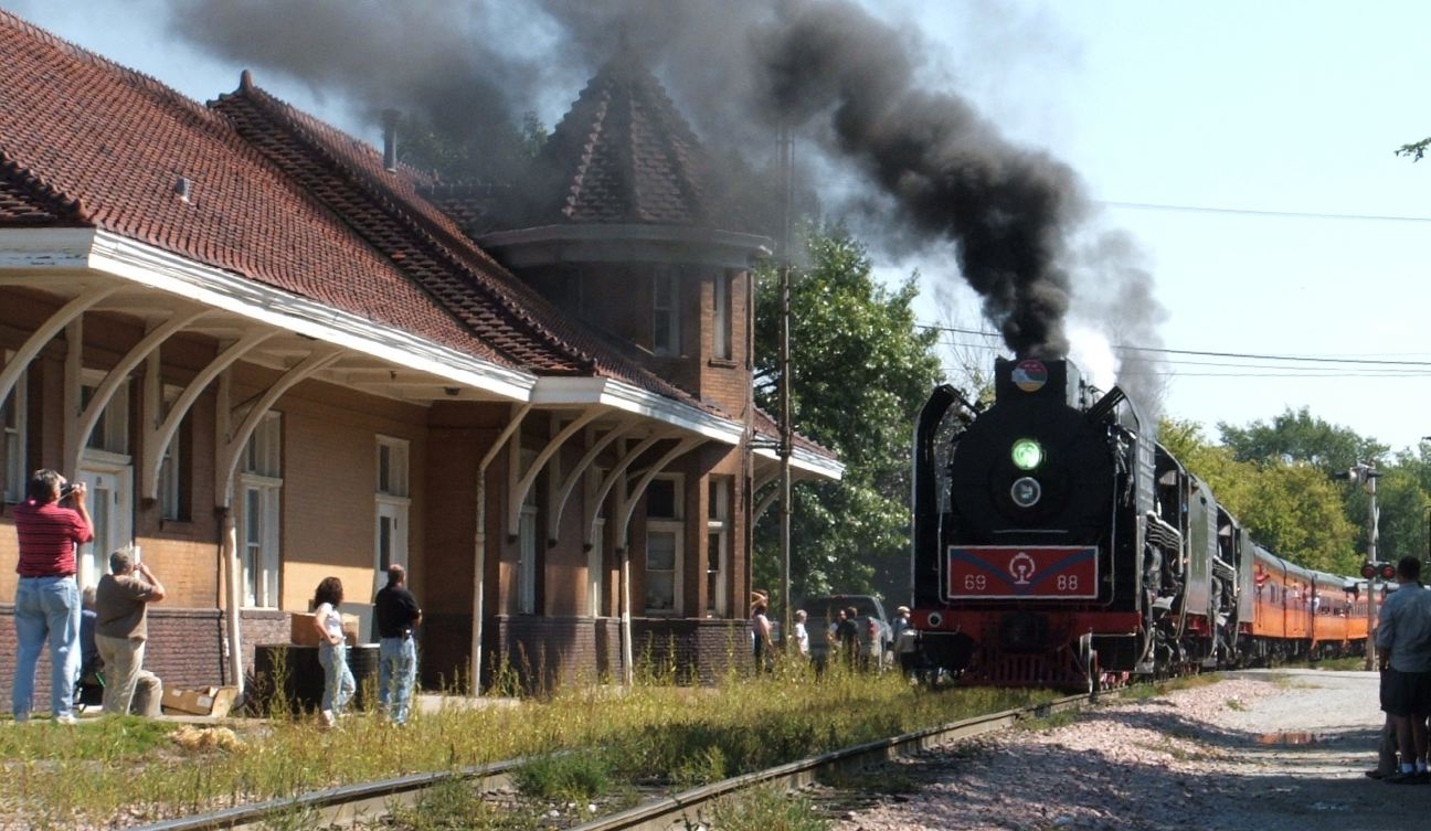 A pair of China Railways QJ] locomotives pull an excursion train into the old Chicago, Rock Island and Pacific Railroad Passenger Station, now located on the Iowa Interstate Railroad in Iowa City, Iowa.